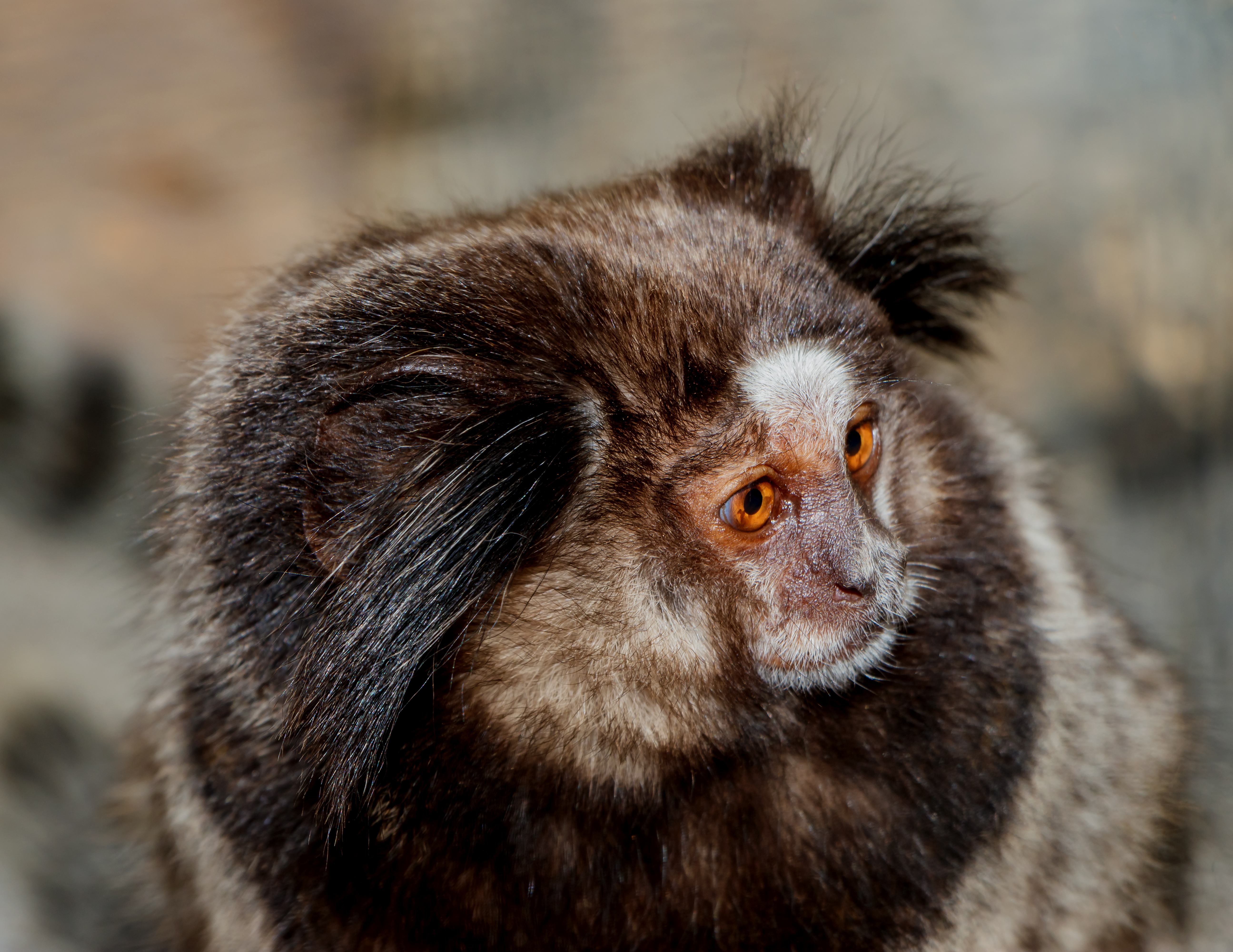 Callithrix penicillata (É. Geoffroy, 1812), Black-tufted marmoset; Maroparque, Breña Alta, La Palma, Canary Islands, Spain.